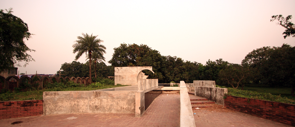 Tomb of Bir Sreshtho Captain Mohiuddin Jahangir. and Major Najmul Alam.